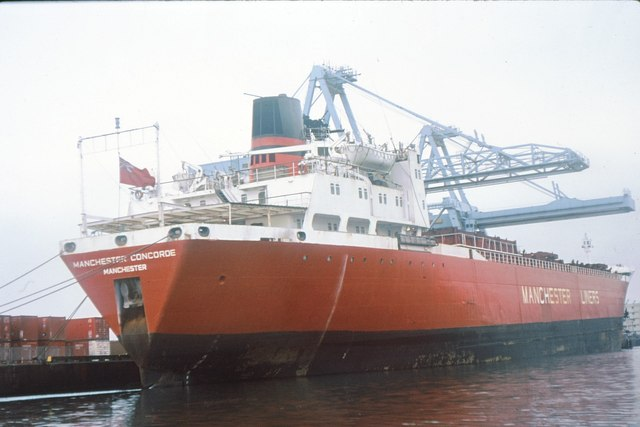 Manchester Docks (Salford Quays) 1979, 3 km from Trafford Park, Trafford, Great Britain. One of Manchester Liners fleet of container vessels being loaded in the largest berth at Manchester Docks, April 1979. The area was rebranded as Salford Quays in the 1990s and features principally service industries and apartments. Vessels such as that pictured, carefully designed to fit the loading gauge of the Manchester Ship Canal, were eventually made obsolete by ever-rising ship sizes. Manchester Liners abandoned the port of Manchester for Liverpool Seaforth Dock in the 1980s. Built by:SMITH'S DOCK COMPANY LTD., SOUTH BANK Name MANCHESTER CONCORDE Type Container Yard Number 1296 Launched 20/01/1969 Completed 05/1969 Off. Number 337261 IMO number 6906464 Engine builder Crossley Premier Engines, Manchester Engine type 2 x 4SA Pielstick GRT 11896 Length (feet) 529.9 Beam (feet) 63.9 History First owner Nile Steam Ship Co. Ltd. (on charter to Manchester Liners, Manchester) Furness-Withy (Shipping) Ltd. Sold 28 Oct 1981, re-registered in Panama and renamed Char Lian. CHAR LIAN, Char Lian Marine Co., Panama Fate 14/12/1983 arrived at Kaohsiung for breaking.